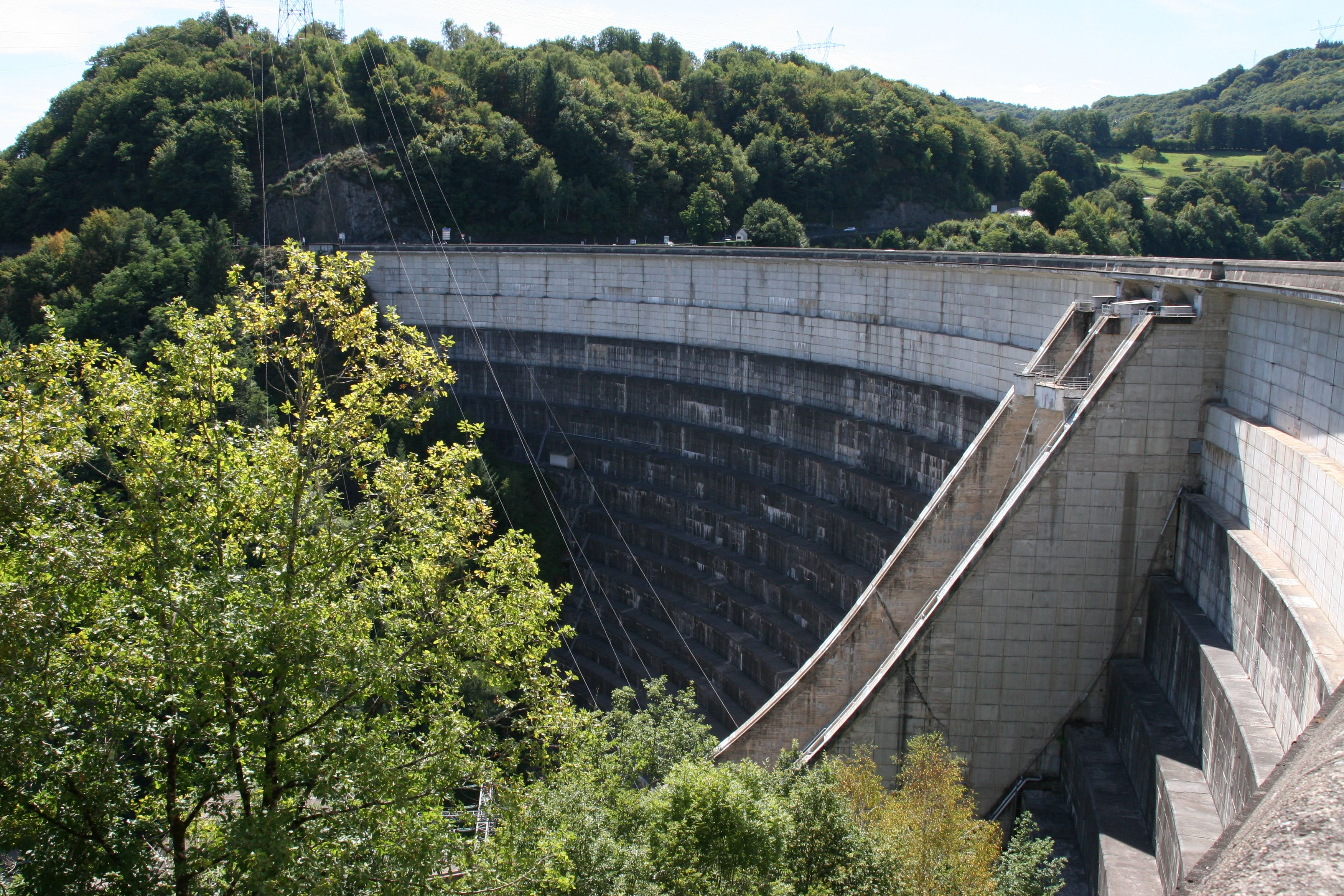 Barrage de Bort-les-Orgues